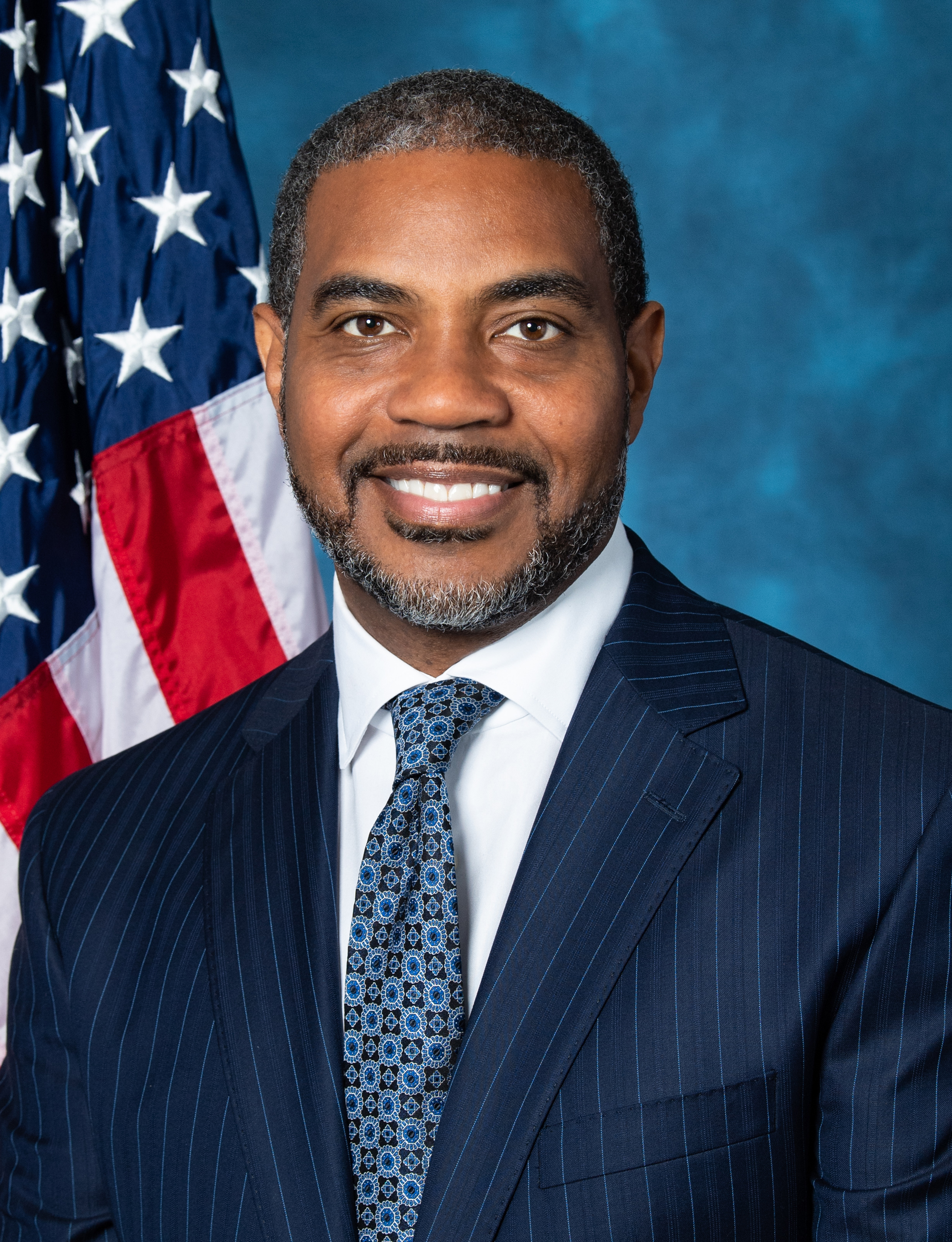 Official photo of Rep. Steven Horsford (D-NV04)